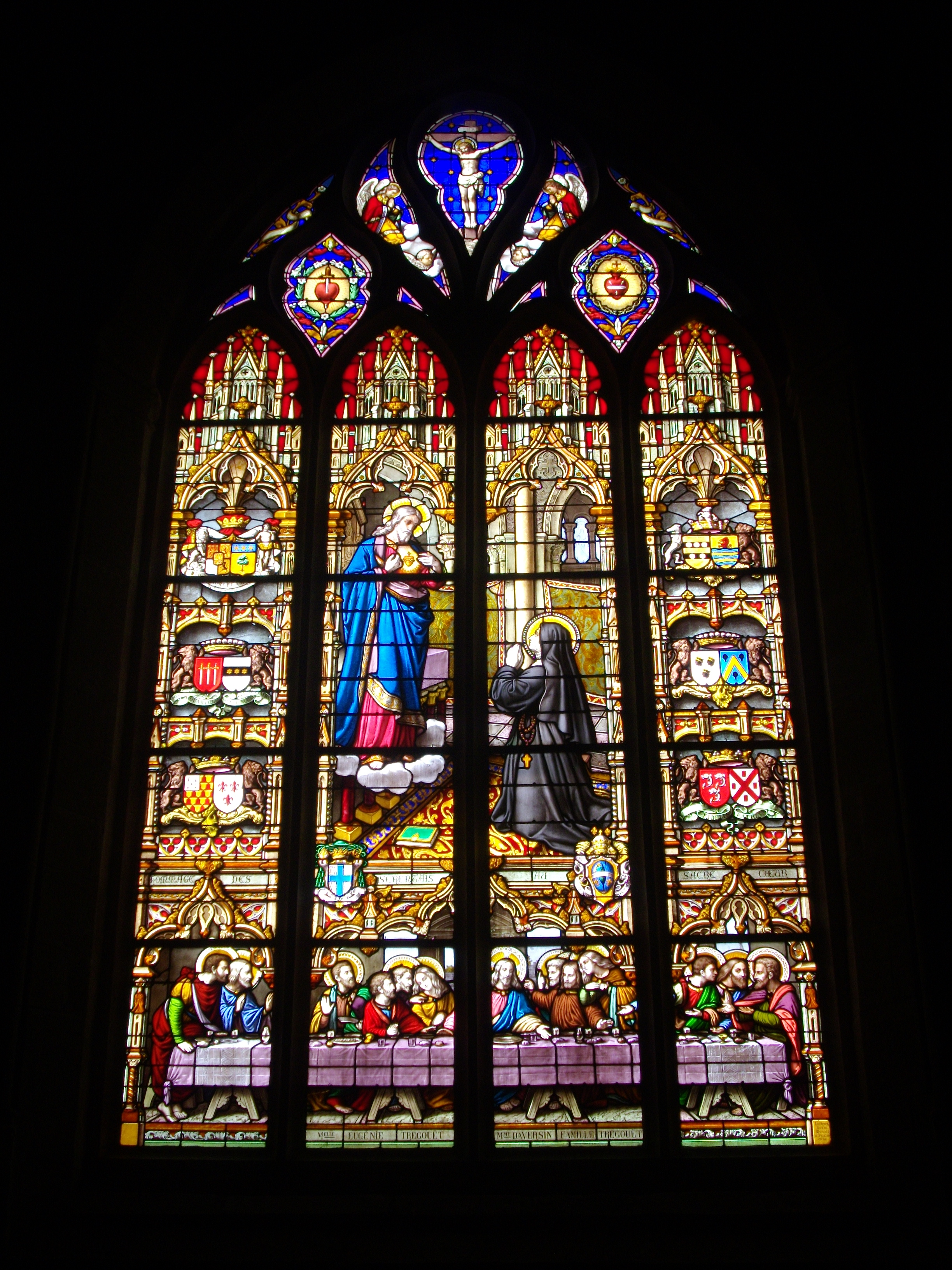 Saint Peter church of Sérent (Morbihan, France). Main stained glass window : Marguerite-Marie Alacoque and the Sacred Heart / the Last Supper, inspired by the work of Leonardo da Vinci .